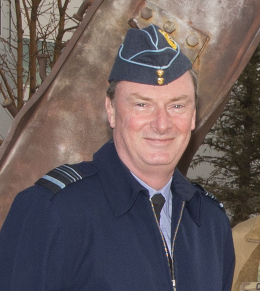 Air Marshal Sean Reynolds and Major General Peggy Combs